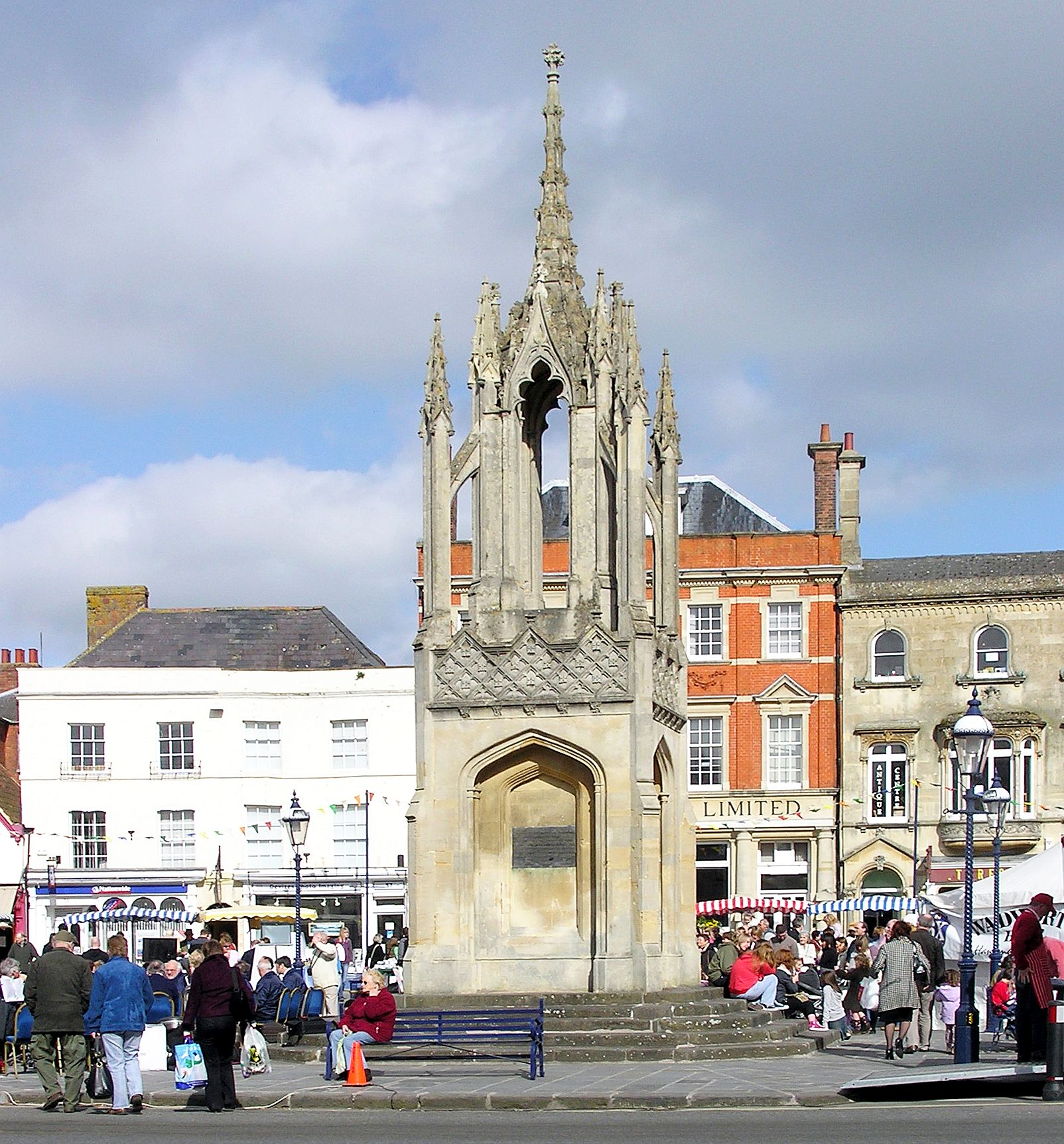 The Market Cross in Devizes, Wiltshire, England. Built in 1814 from Bath Stone. Paid for by Devizes Member of Parliament Henry Addington (later called Viscount Sidmouth). Photographed by Adrian Pingstone in March 2007 and placed in the public domain.